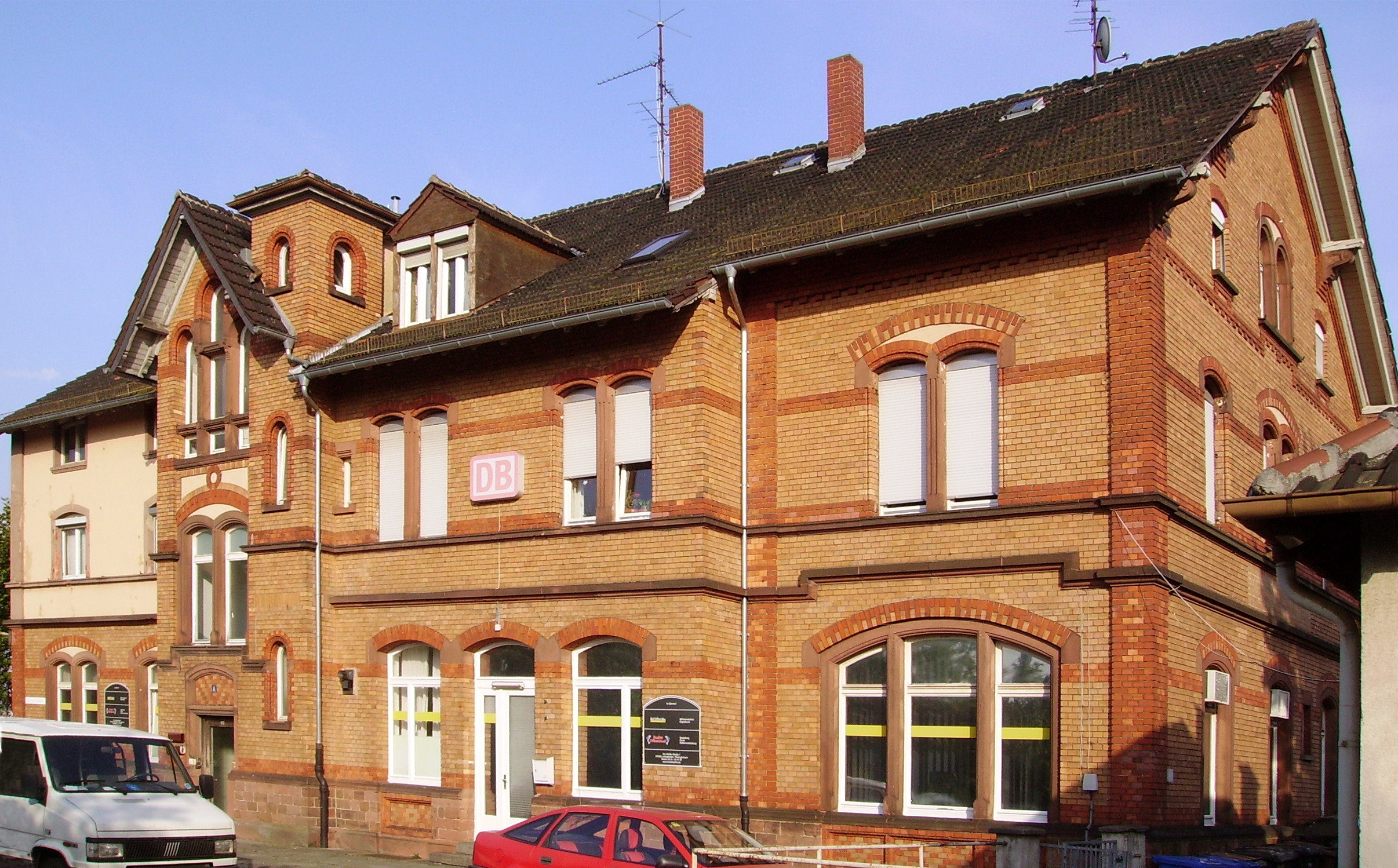 building in Ludwigshafen, Germany